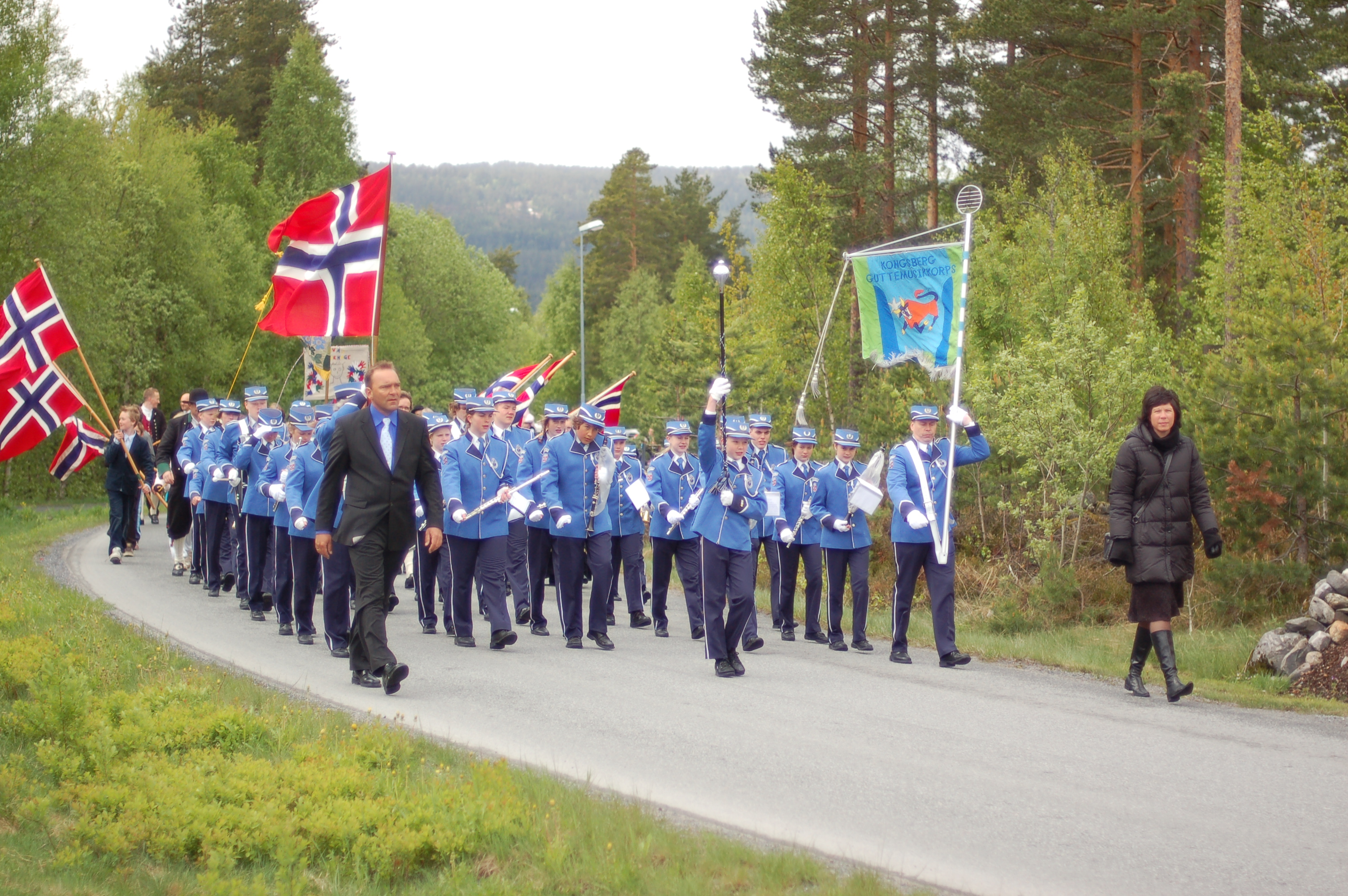 Kongsberg Guttemusikkorps.